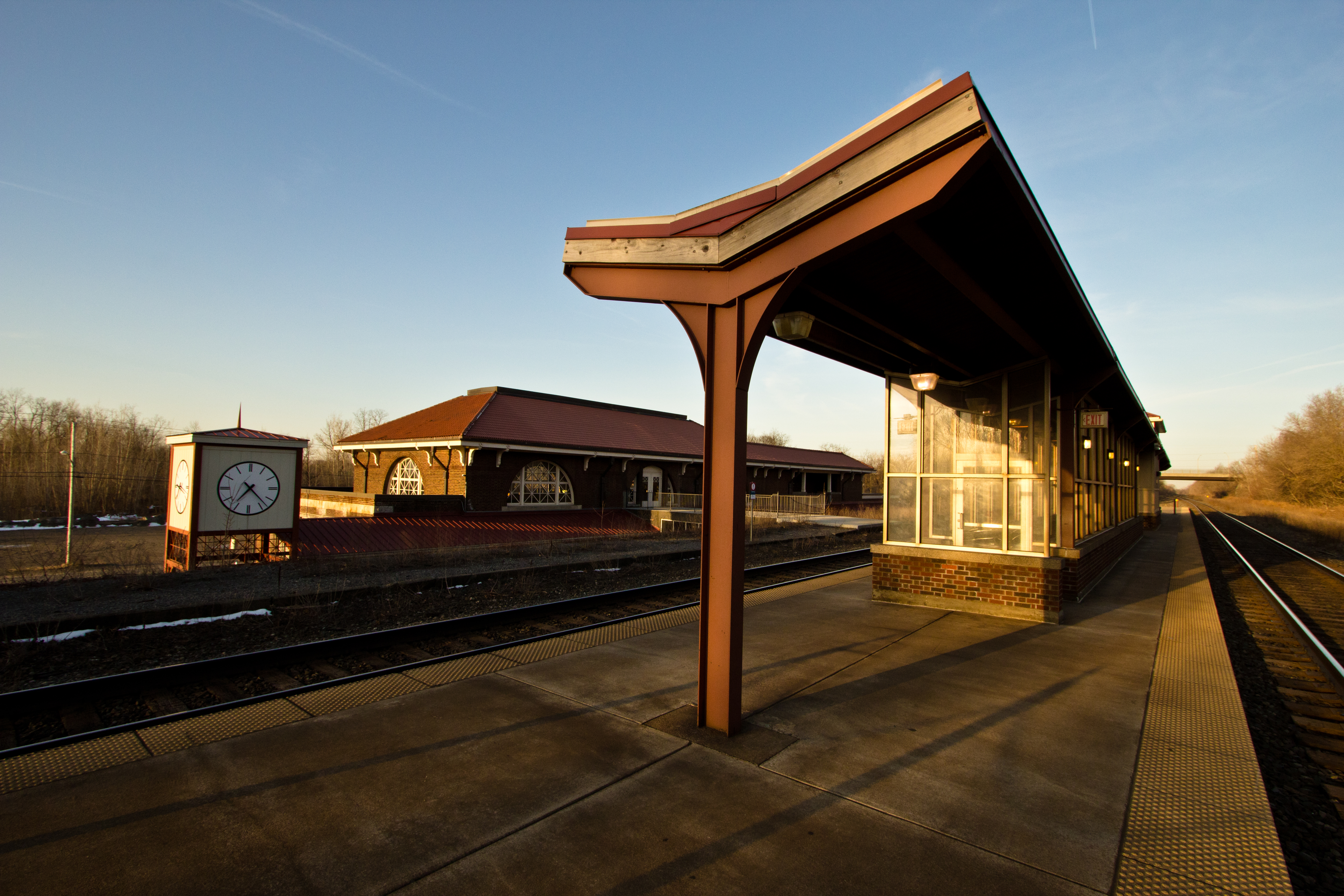 The platforms at the Rome Amtrak station with the station building behind.